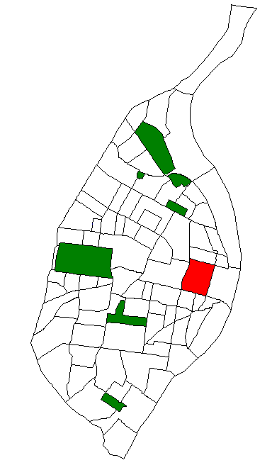 Map of St. Louis Neighborhood #36 (Downtown West)